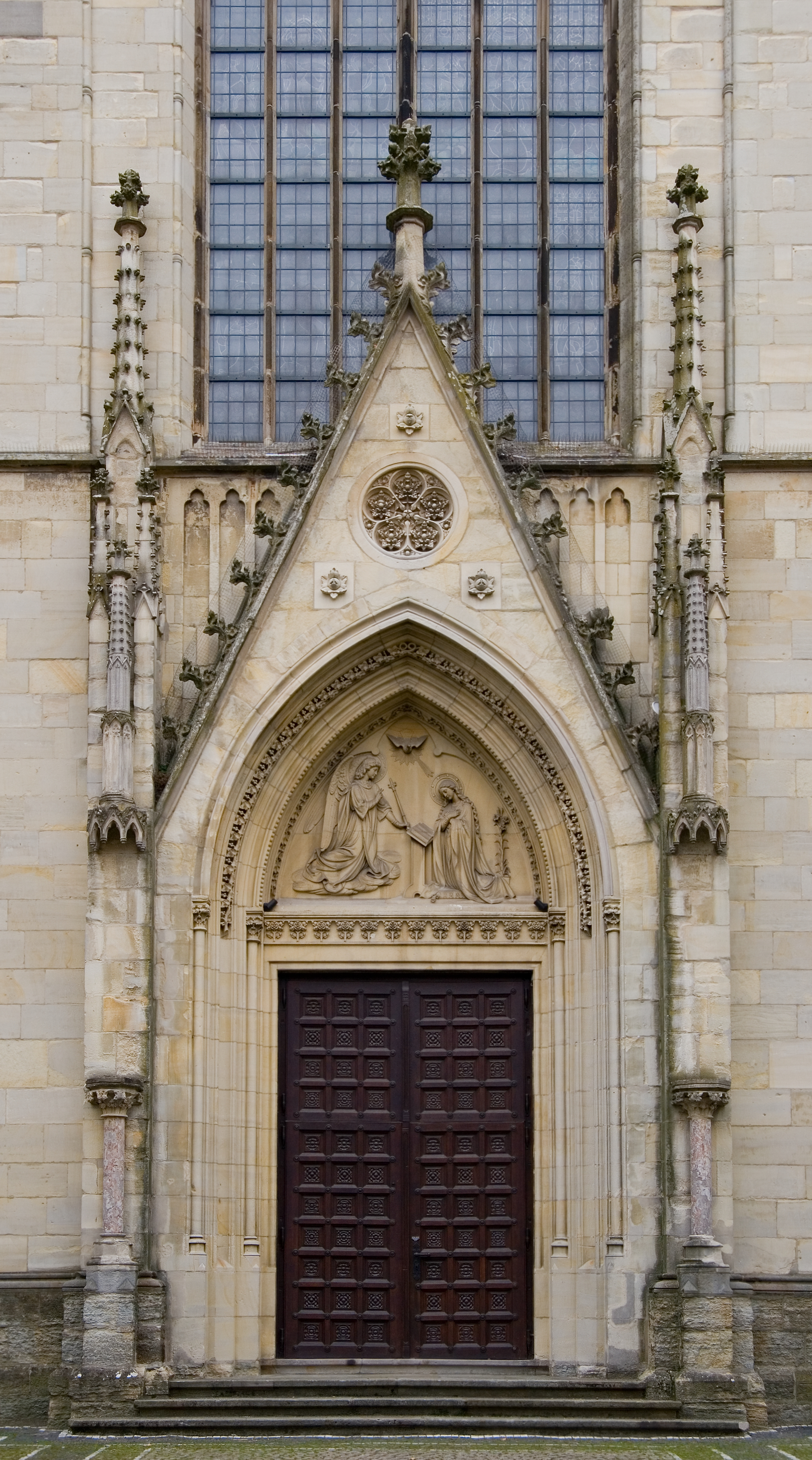 Billerbeck (North Rhine-Westphalia, Germany) – Catholic Saint Liudger Church (also known as Billerbeck Cathedral) – south portal This image shows a heritage building in Germany, located in the North Rhine-Westphalian city Billerbeck (no. 11). This photograph was taken with a Nikon D3000